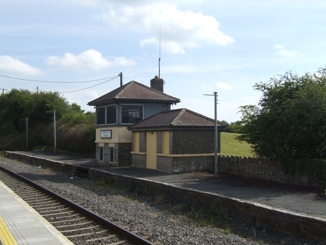 Signal box at Thomastown Station. S5741 :: Signal box at Thomastown Station, near to Baile Mhic Andain, Kilkenny, Ireland